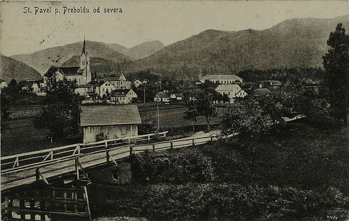 Postcard of Prebold.